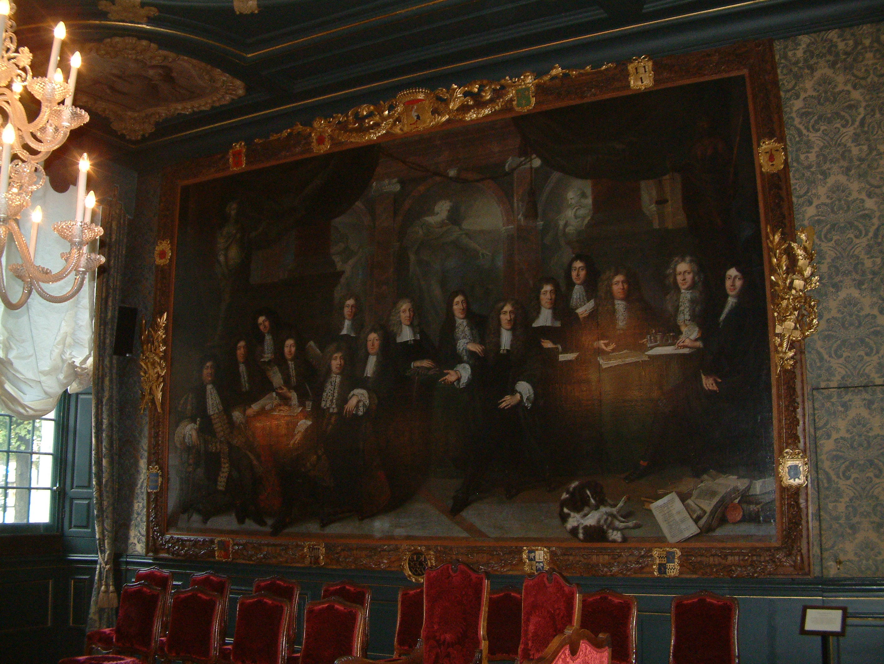 Painting of the magistrates standing before an allegorical presentation of Salomon's judgement